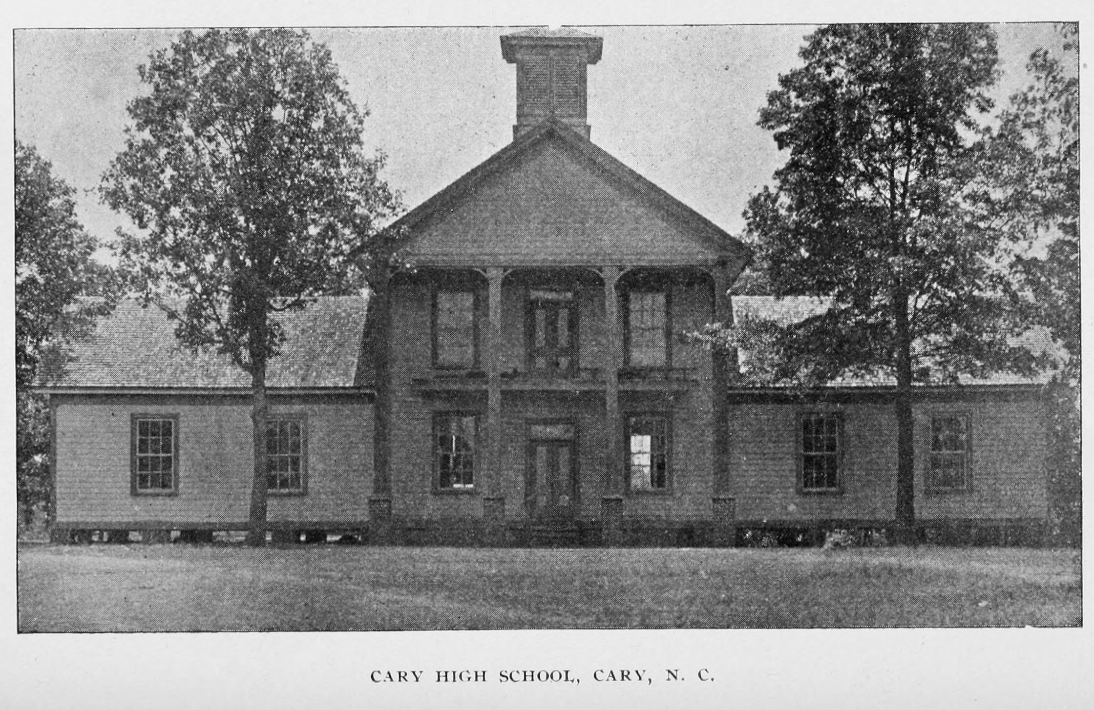 From the 1896-1898 Biennial Report of the Superintendent of Public Instruction of North Carolina, available here: We don't know much about this school. If you recognize it, or if you know that the building still exists, leave a comment. We'd even love a link to a Google map if you can find this building.